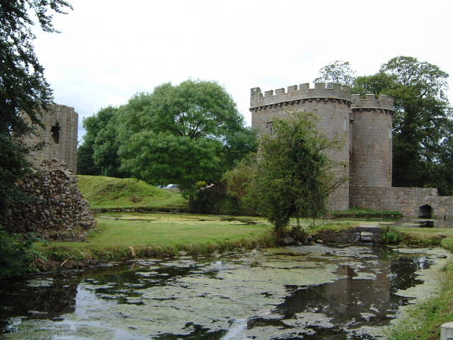 Whittington Castle